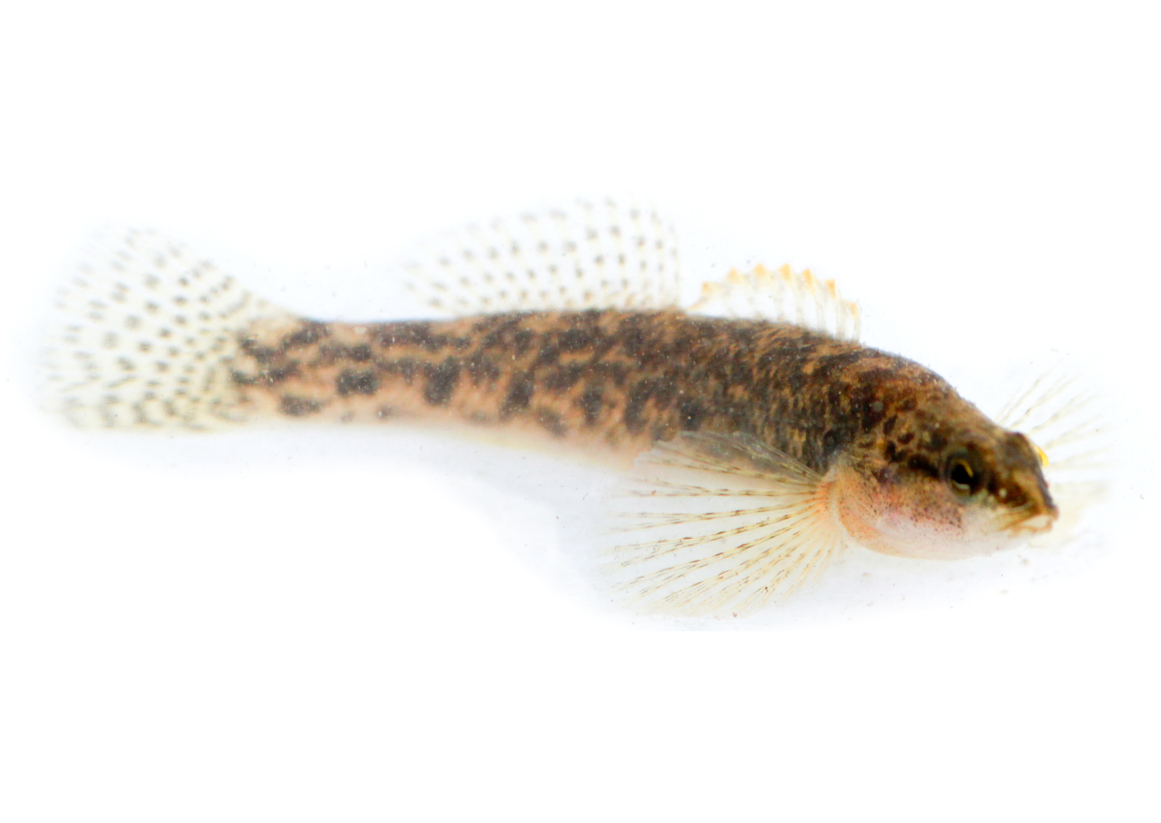 Fantail Darter (Etheostoma flabellare)